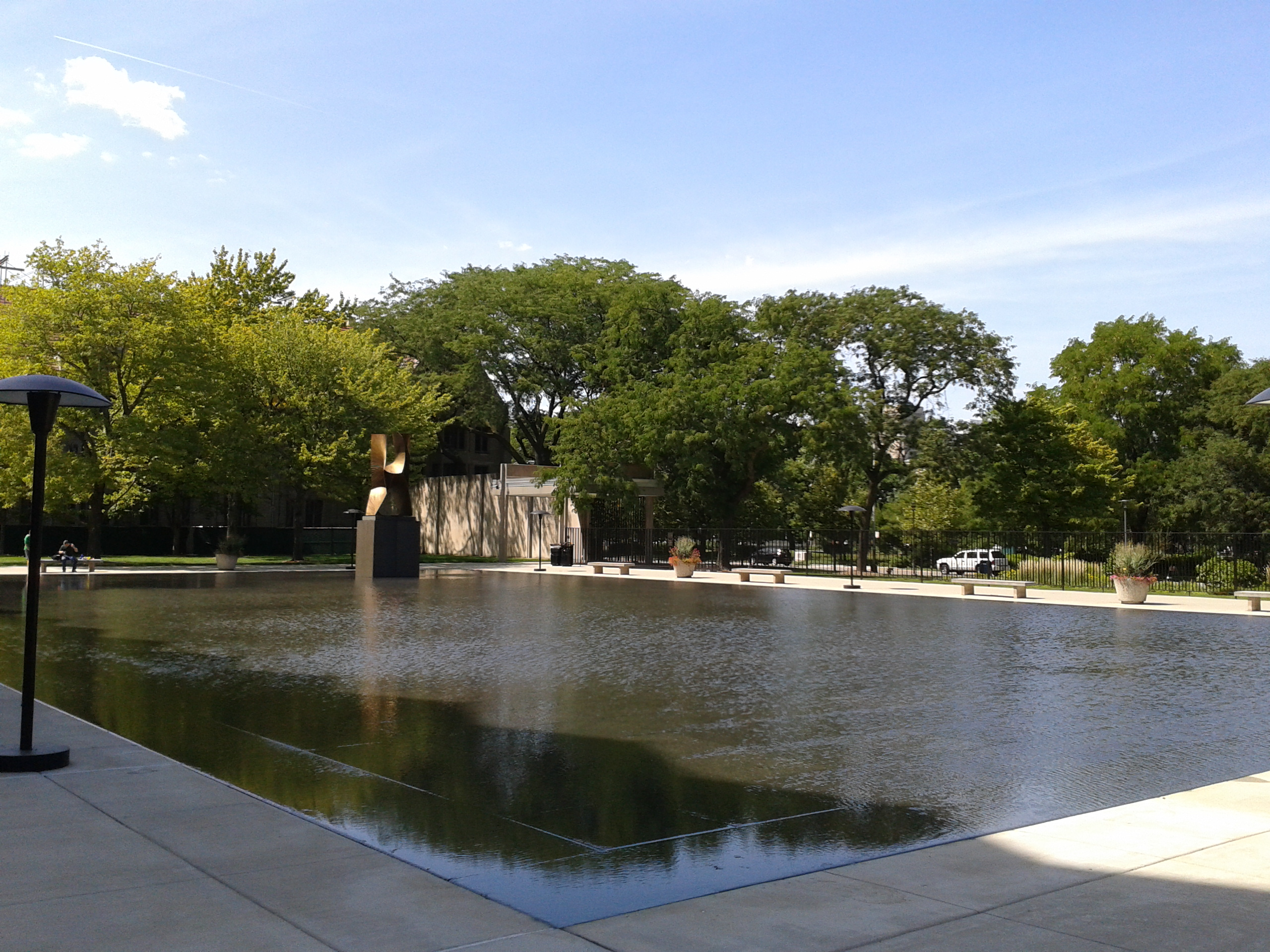 Quad at the University of Chicago Law Library.